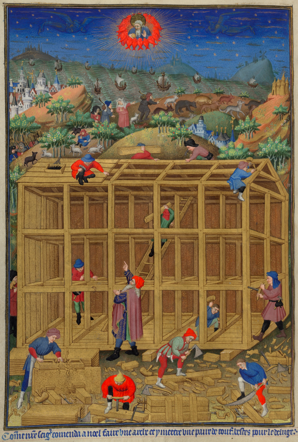 Miniature of the building of Noah's Ark; from BL Add MS 18850, f. 15v (the "Bedford Hours"). Held and digitised by the British Library.